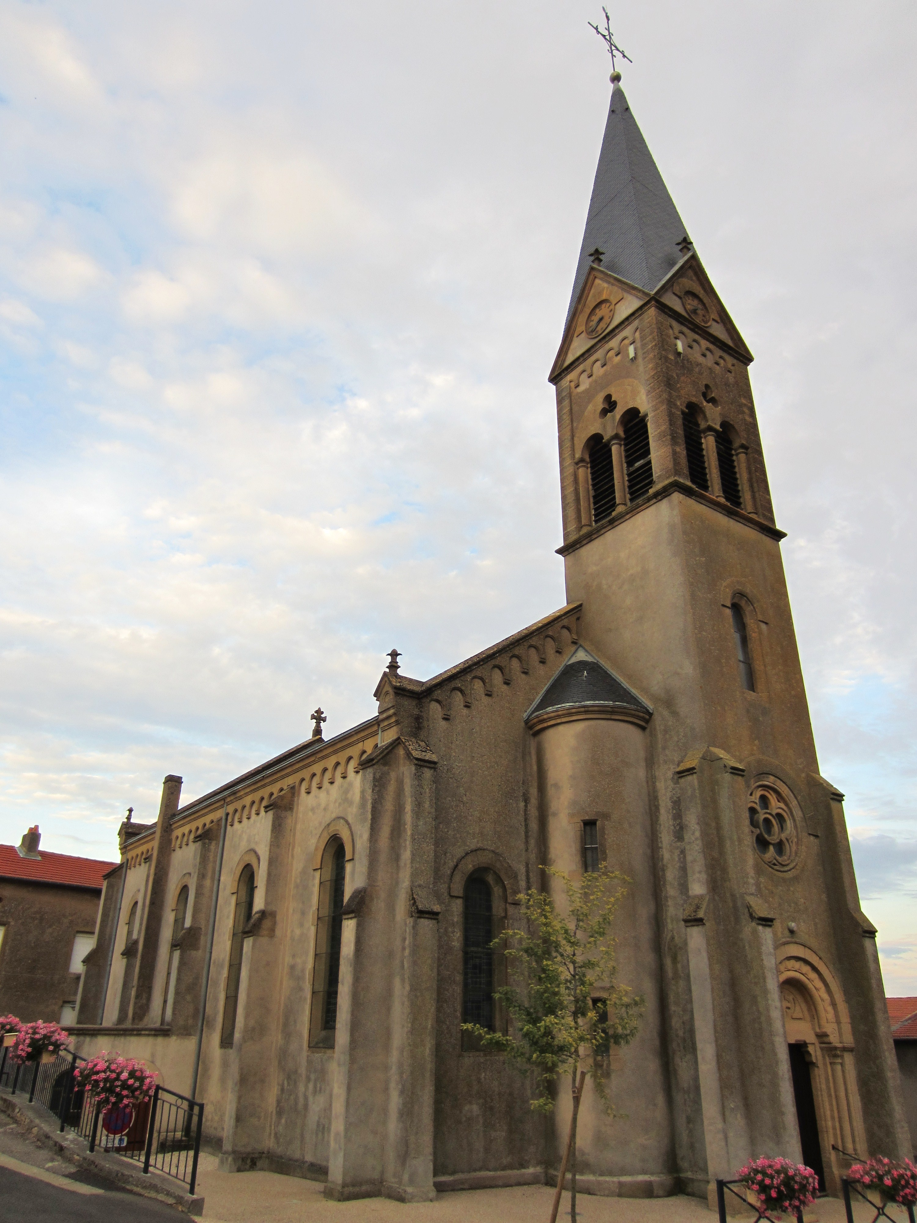 Description eglise Verneville Date2 September 2011Sourcemon appareil photoAuthorAimelaimePermission(Reusing this file) eglise Verneville